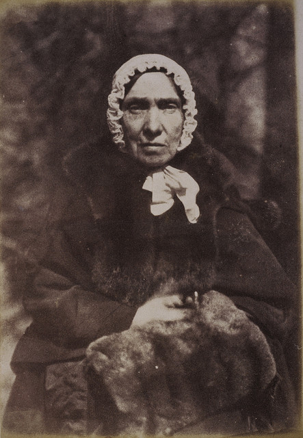 Robert Adamson, David Octavius Hill 1843 - 1846 Accession no. PGP HA 277 Medium Calotype print Size 19.80 x 13.80 cm Credit Provenance unknown For more information please select here.